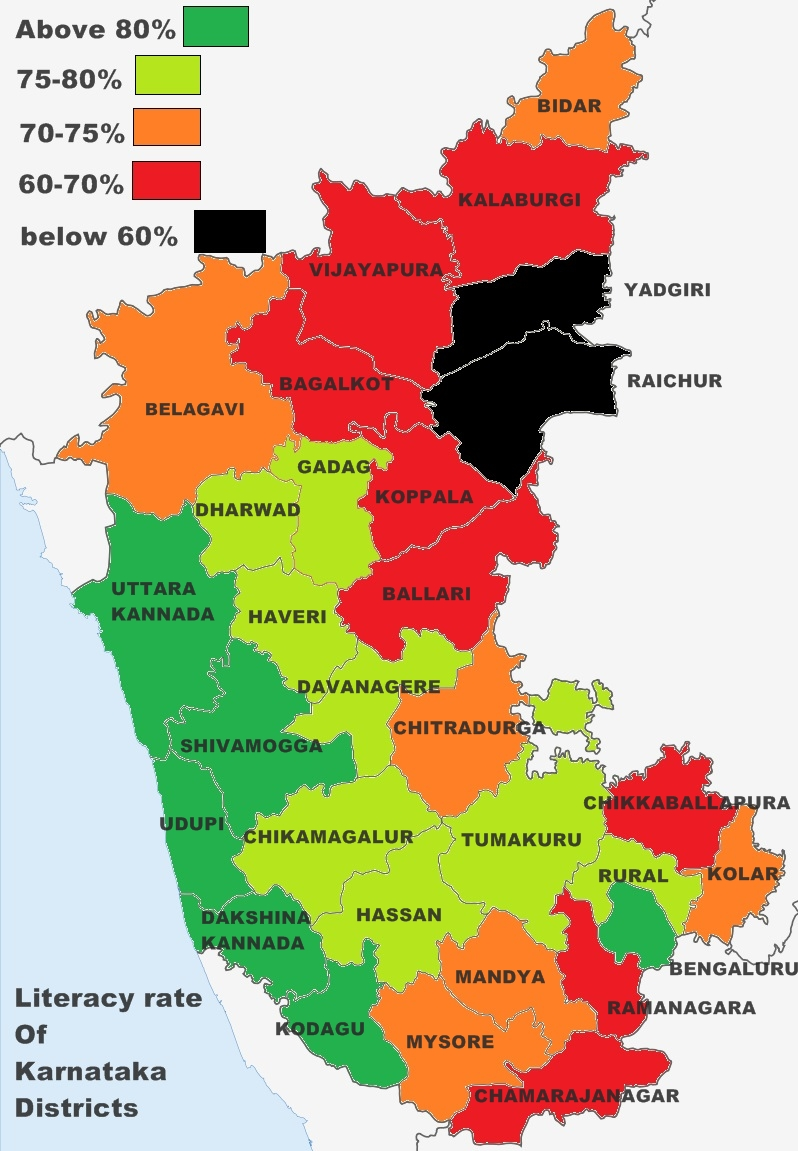 Literacy Level Of Karnataka Districts